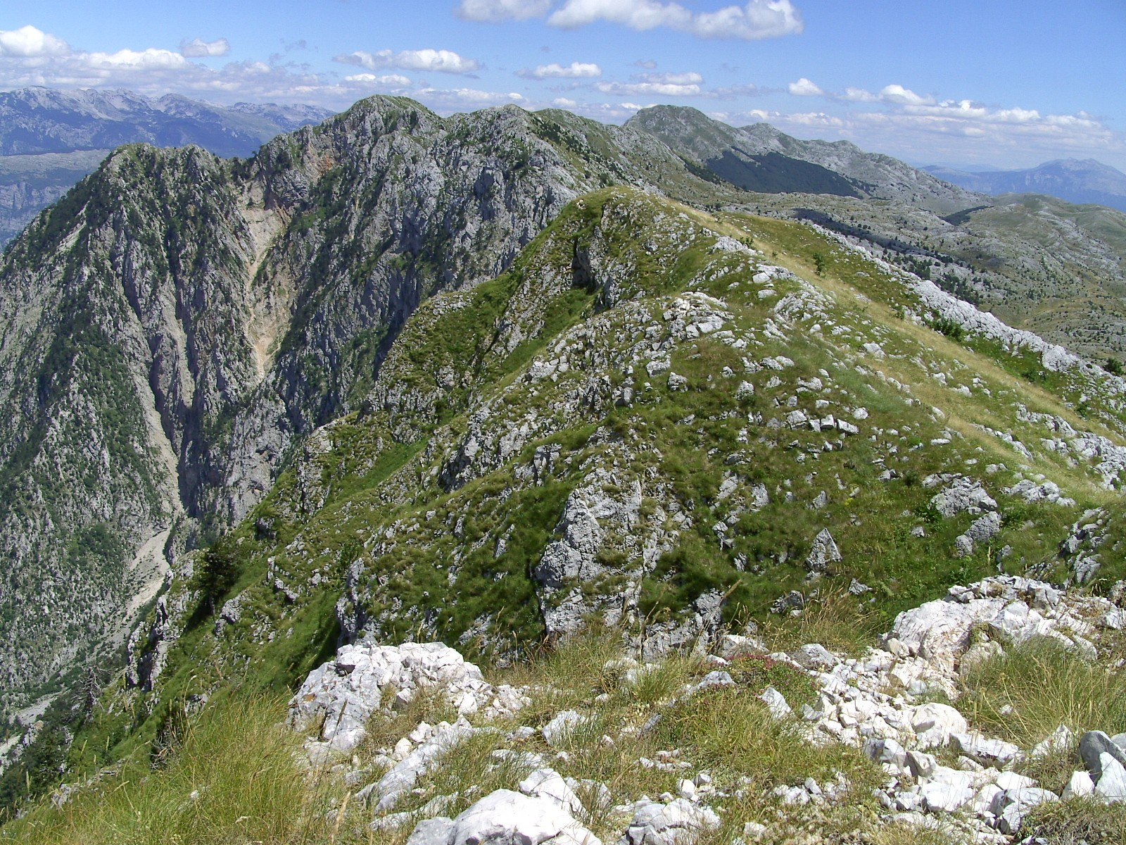 Čabulja hills in Bosnia and Herzegovina